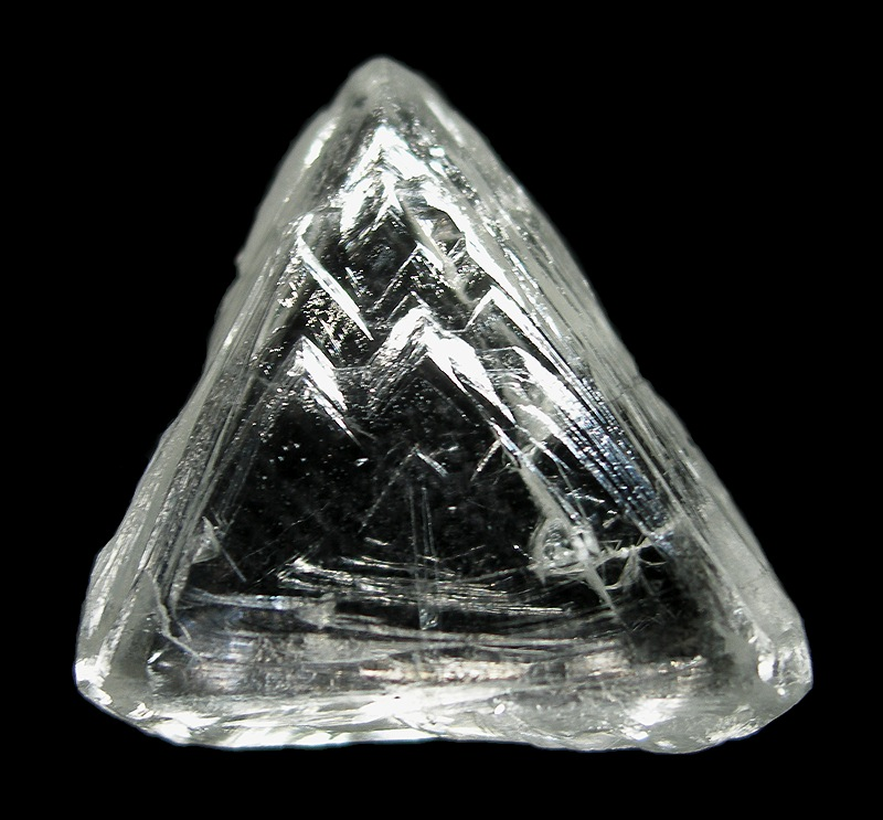 Diamond Locality: South Africa (Locality at ) Size: thumbnail, 1.5 x 1.5 x 0.4 cm Diamond (Macle twinned) This rare twinned diamond crystal is not only stunning, but is also rather thick at 4.2 mm in thickness, to have such clarity. It is twinned in a formation called "macle twinning", more common in spinels and quite rare in other gem species. The result is that instead of looking octahedral, it looks like a sharp triangle. It is exceptionally clean throughout, with only a few extremely slight carbon inclusions; and you could call it gemmy and literally mean "gemmy" when you say it. The triangular form is unusually equant for a stone of this size, and it "looks" naturally cut. In fact, a recent vogue in jewelry is to wear such natural diamonds in fancy settings, without cutting and faceting them. This could be one such showpiece, if mounted in a setting. It certainly is the biggest diamond of any quality that I have seen for available on the open market as a specimen in the 3 years or so since I last had one of these crystals. The specimen is 9.94 carats.